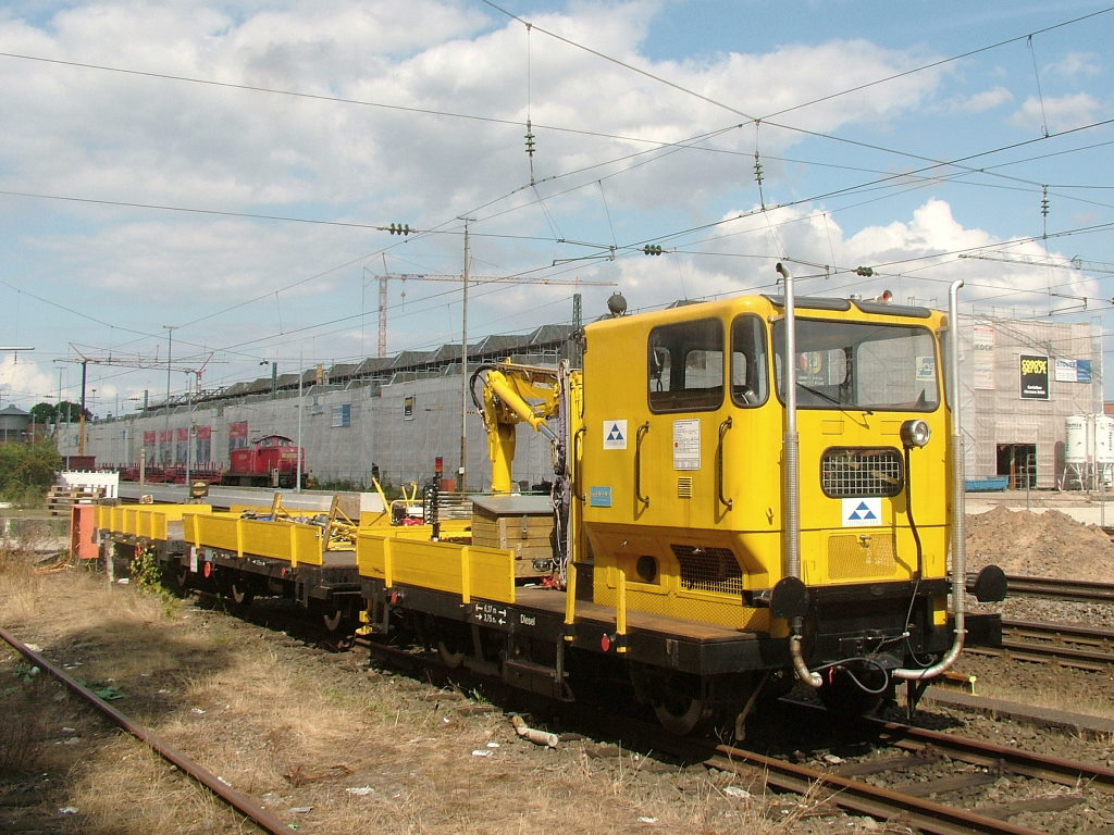 modernized track maintenance vehicle Klv 53-0248 standing in Lingen(Ems), Germany